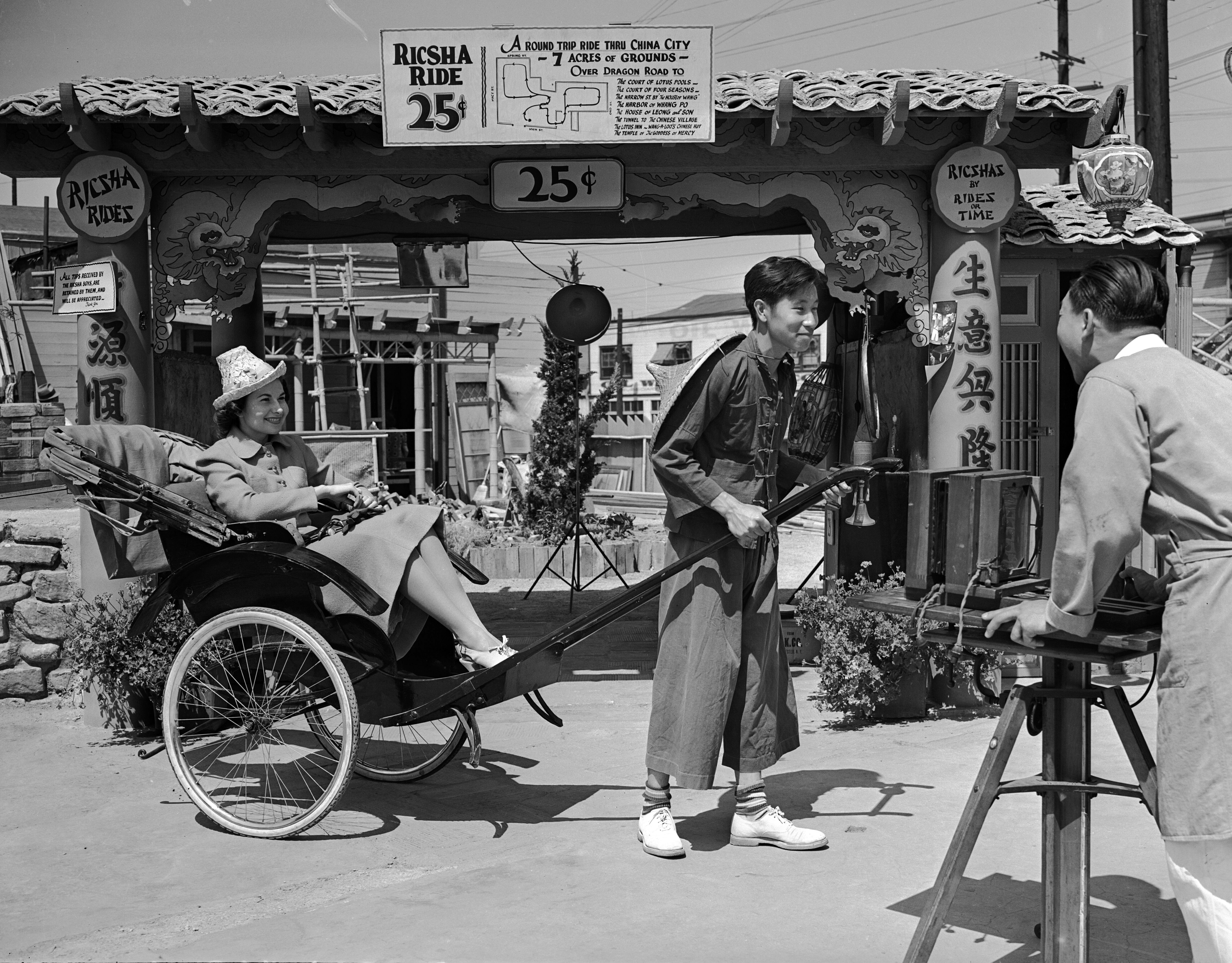 Title: Rickshaw driver and passenger in Chinatown, Los Angeles (Calif.) Publication:Los Angeles Daily News Publication date:ca. 1938 Notes:A rickshaw driver and his passenger pose for a photographer on North Spring Street, China City, the "New" Chinatown in Los Angeles following the move from the Union Station area. Source:Los Angeles Times photographic archive, UCLA Library Licensing Note about non-renewal of copyright: [1]